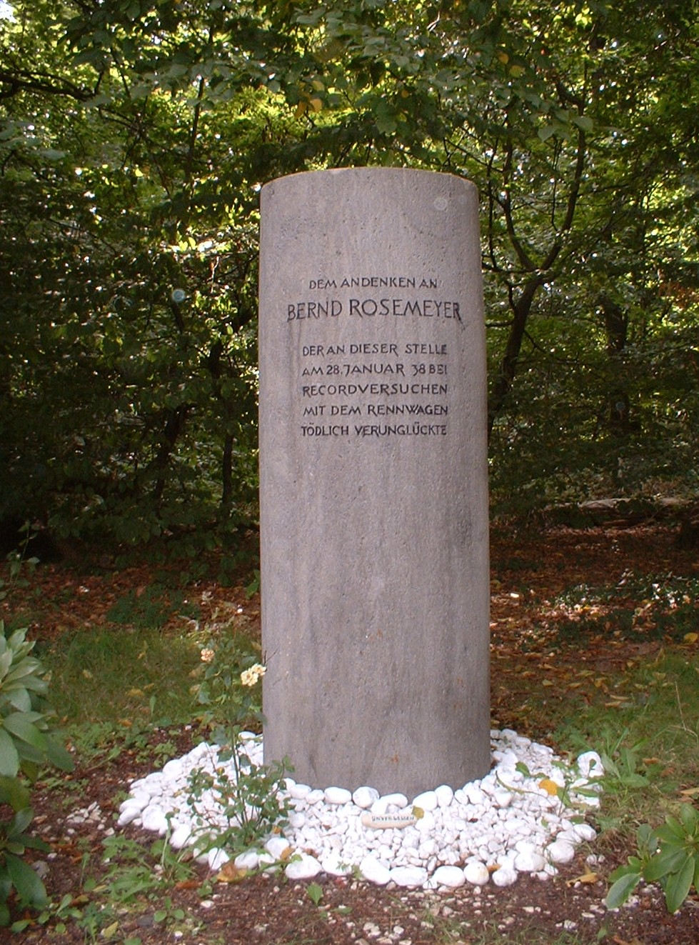 Bernd-Rosemeyer-memorial (right part) at the autobahn A5, parking place "Bernd Rosemeyer", near Mörfelden-Walldorf